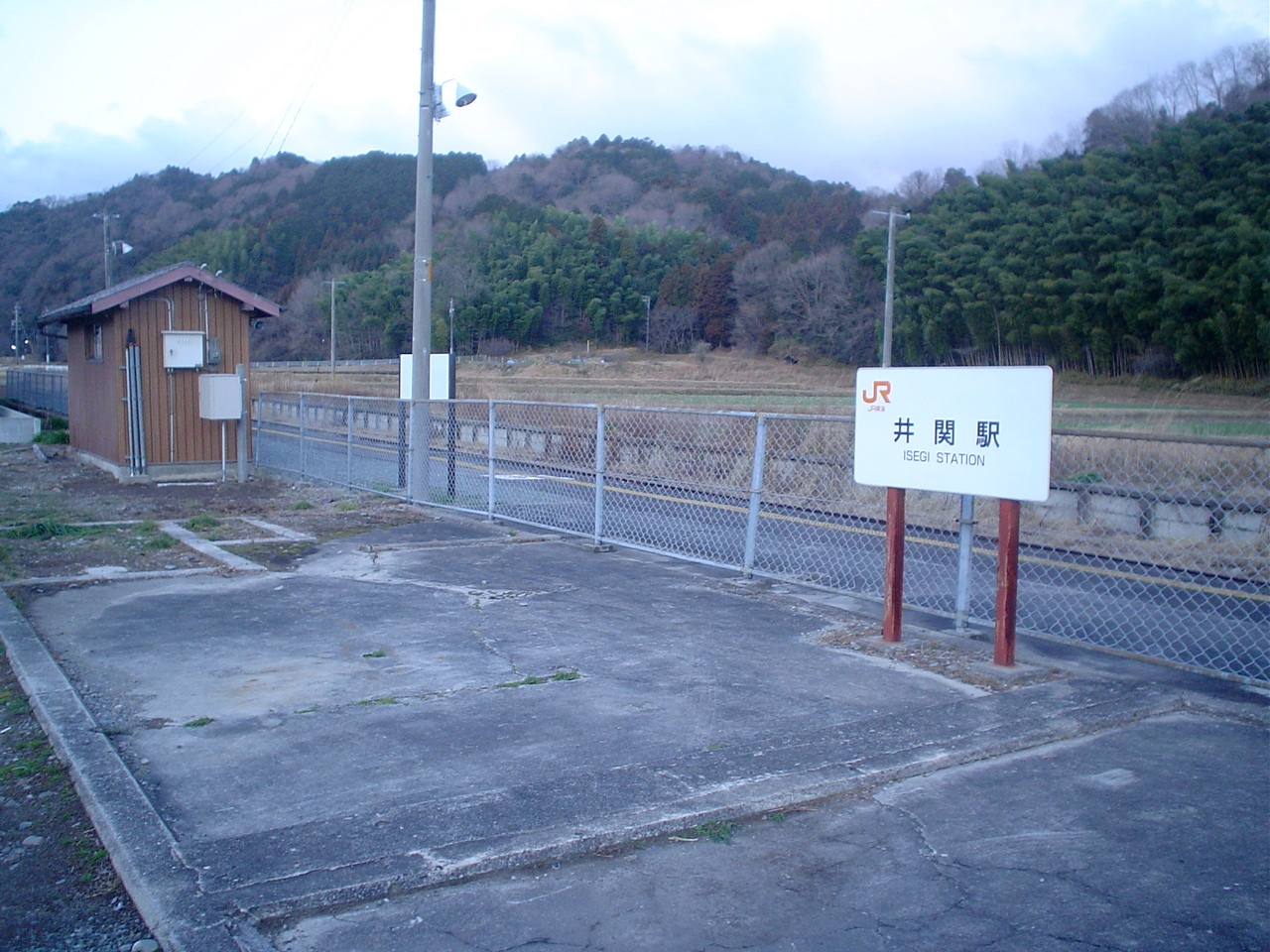 Isegi Station in Mie pref, japan